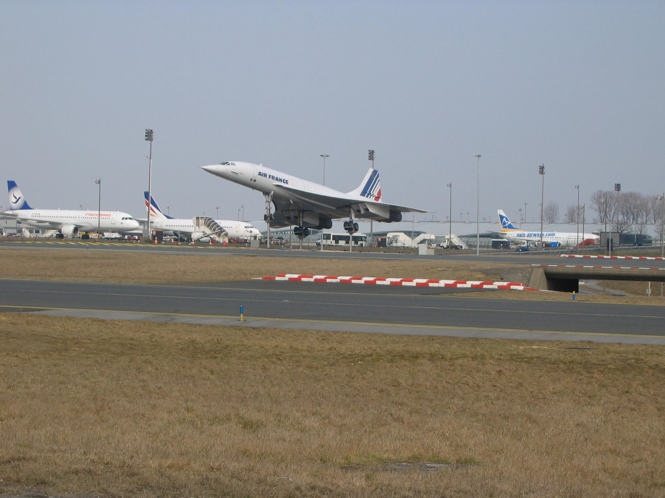 The Concorde in Roissy-Charles de Gaulle